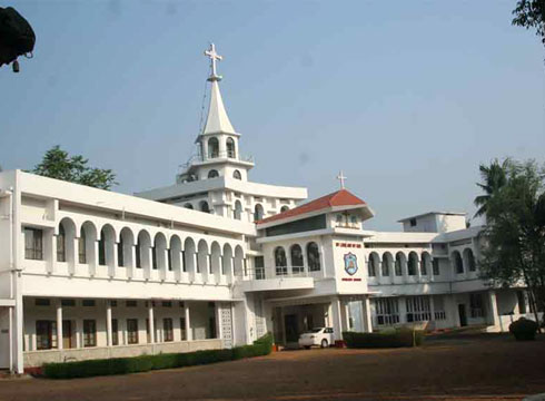 Catholicate Palace of the Malankara Orthodox Syrian Church in Kottayam, India